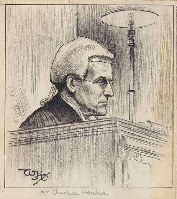 Depicted person: Robert Parker, Baron Parker of Waddington – British judge and barrister